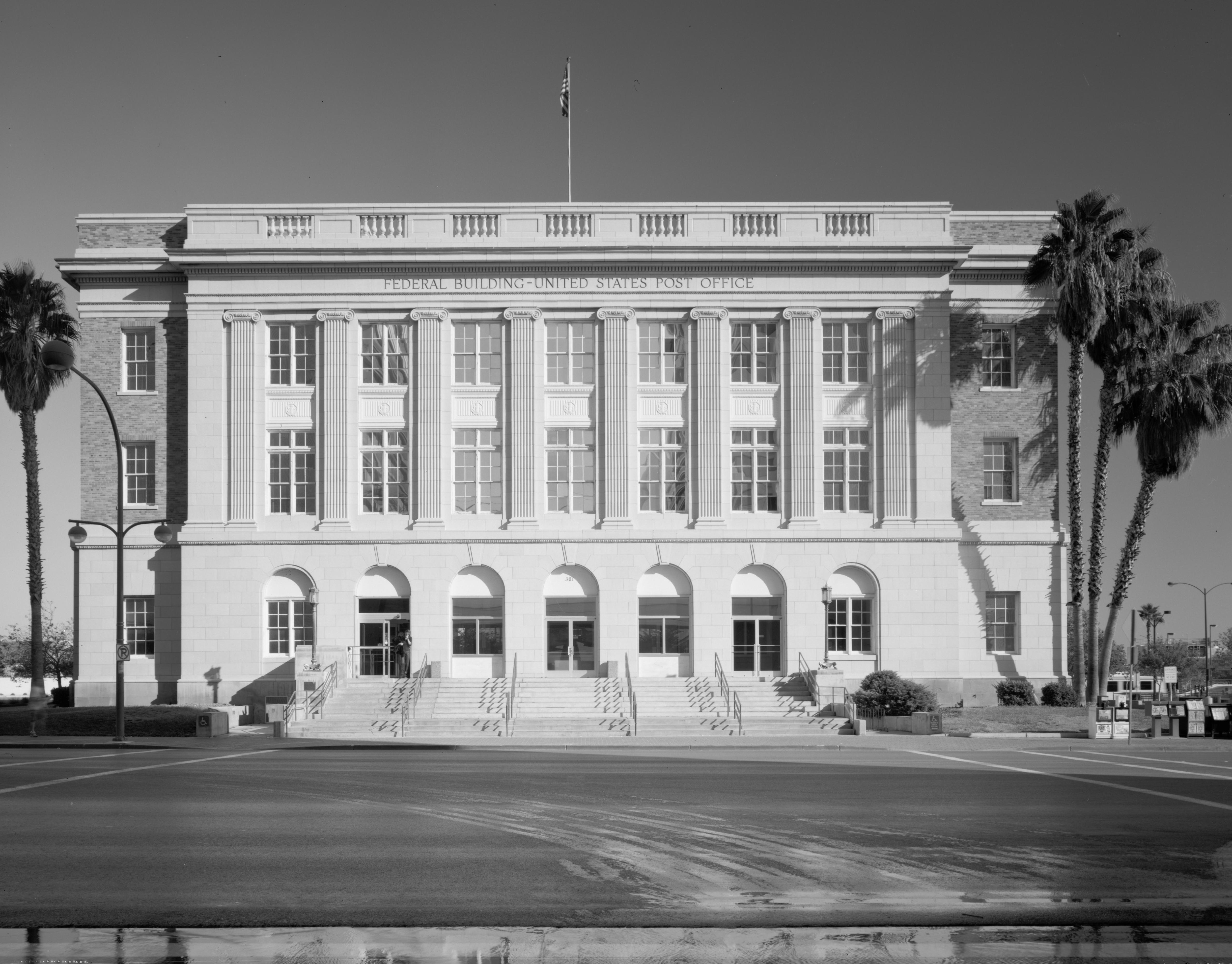 Front of the U.S. Post Office and Courthouse, located at 300 E. Stewart Avenue in Las Vegas, Nevada, United States. Built in 1933, it is listed on the National Register of Historic Places.